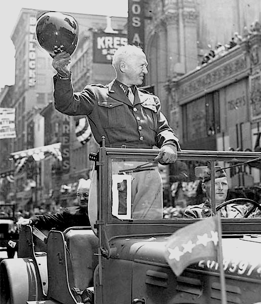 General George S. Patton is honored with a parade through Los Angeles and a reception at the Memorial Coliseum before a crowd of over 100,000. He speaks in front of the Burbank City Hall and at the Rose Bowl in Pasadena, wearing a chest full of medals and two ivory-handled revolvers (not pearl, as is often incorrectly asserted). He punctuates his speech with some of the same profanity that he has used with his troops